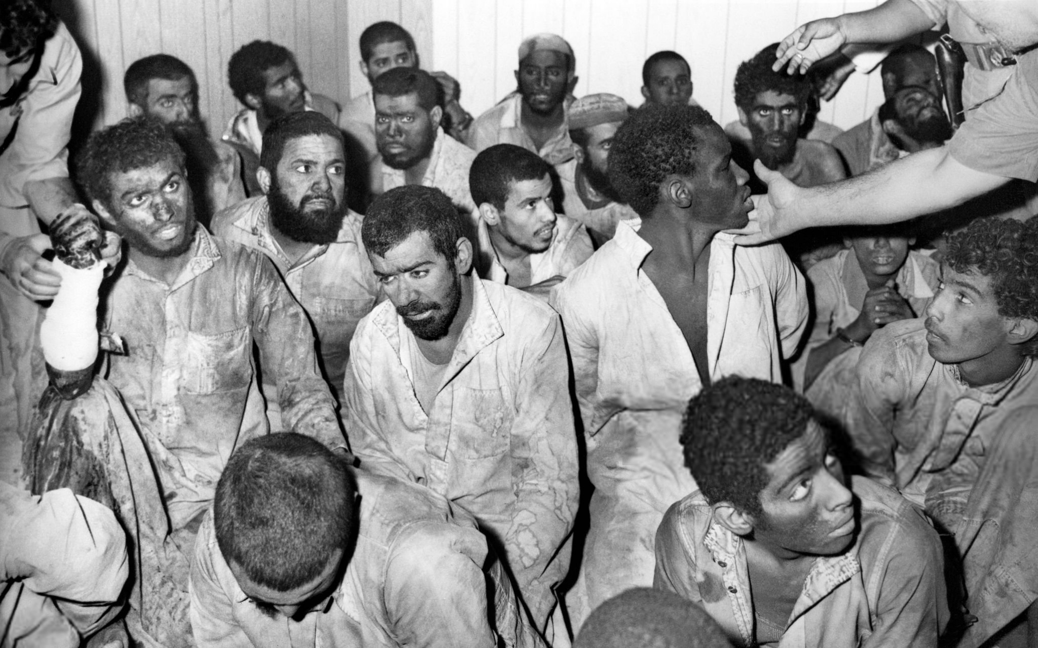 Officers Juhayman al Otaibi